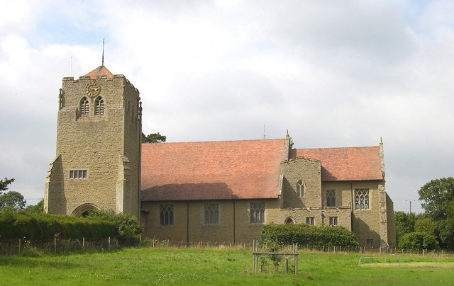 All Saints Church, Richards Castle The 'new' church, actually in Batchcott, Shropshire. Architect : Richard Norman Shaw